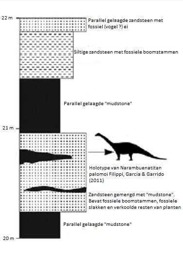 Part of the stratigraphic column of the Upper Cretaceous (Campanian) Anacleto Formation, Narambuena area, Neuquén Province, Argentina.